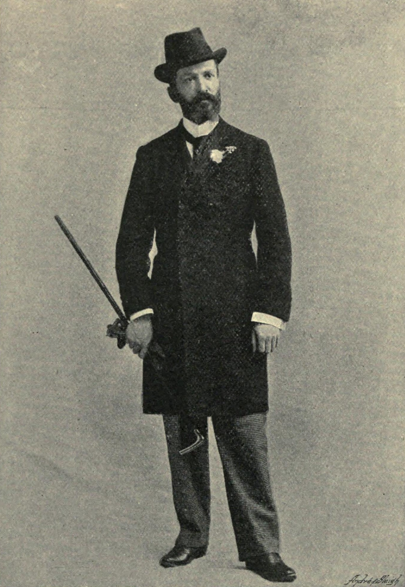 Portrait of Luigi Mancinelli